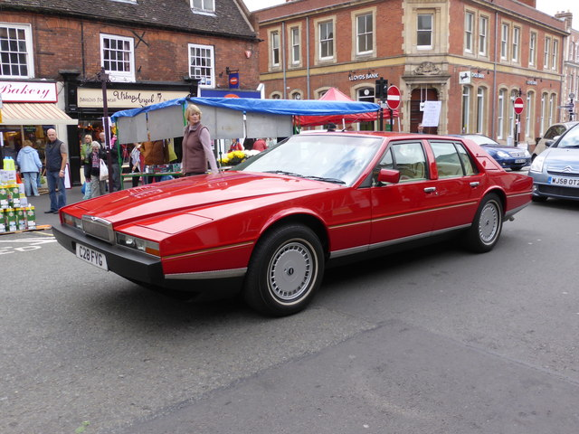 Aston Martin Lagonda - Bridgnorth